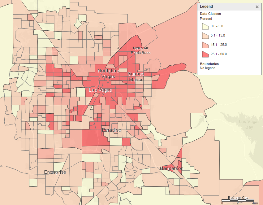 Thematic map of percent of population living under federal poverty line by census tracts covering the Las Vegas Valley.